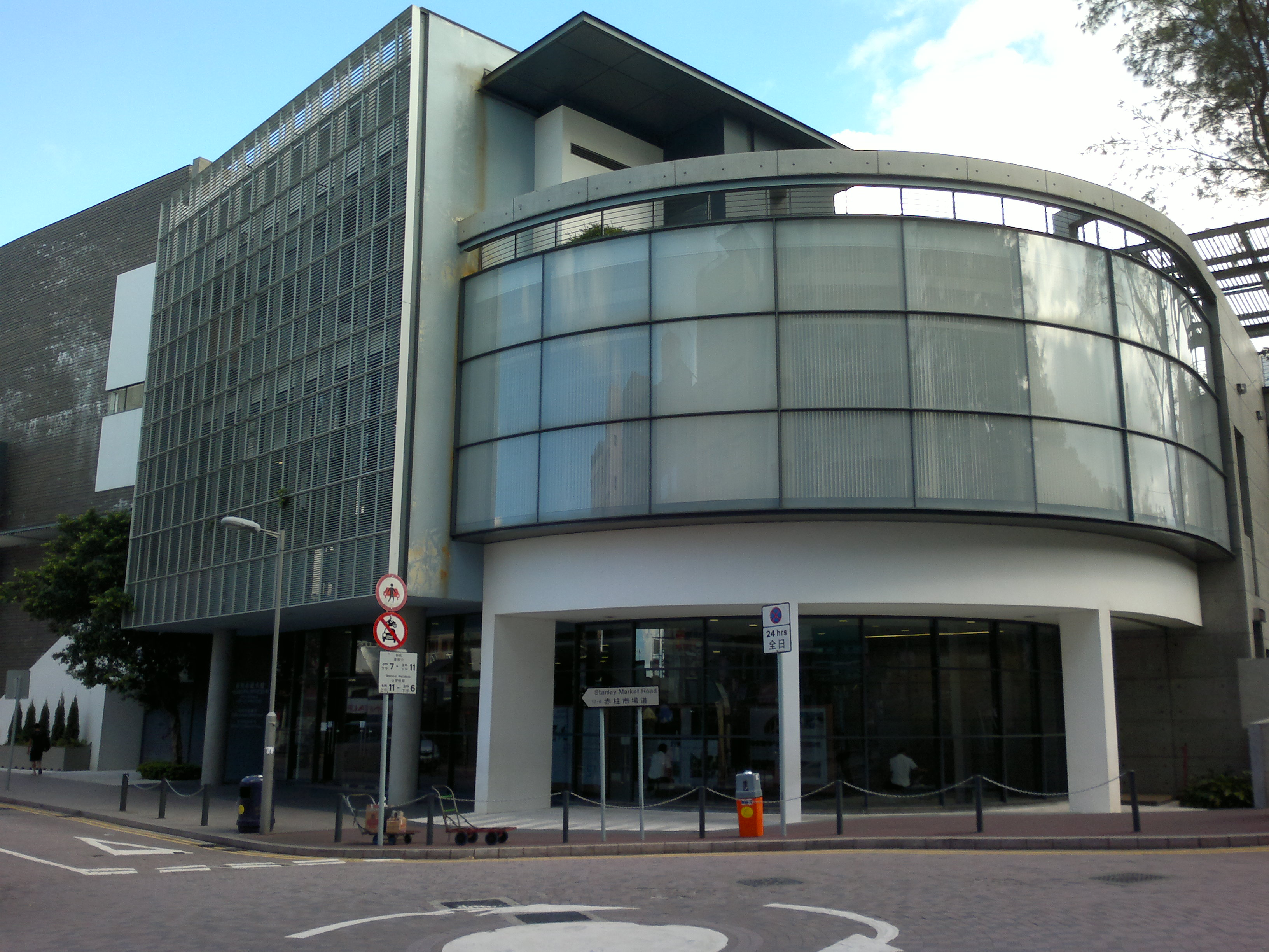 Stanley Municipal Services Building